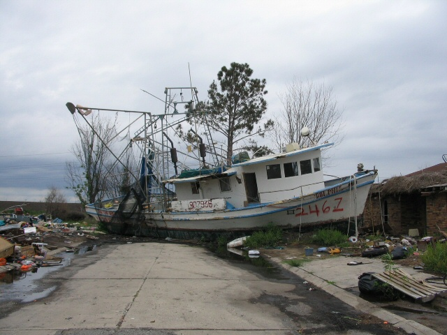 Shrimp boat left stranded by the storm more than a mile from the Mississippi River Gulf Outlet in suburban Chalmette, La. This was about eight months after Hurricane Katrina. I'm told the boat eventually burned.